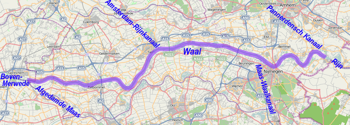 Waal, Netherlands location map